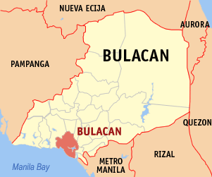 Map of Bulacan showing the location of the Municipality of Bulacan